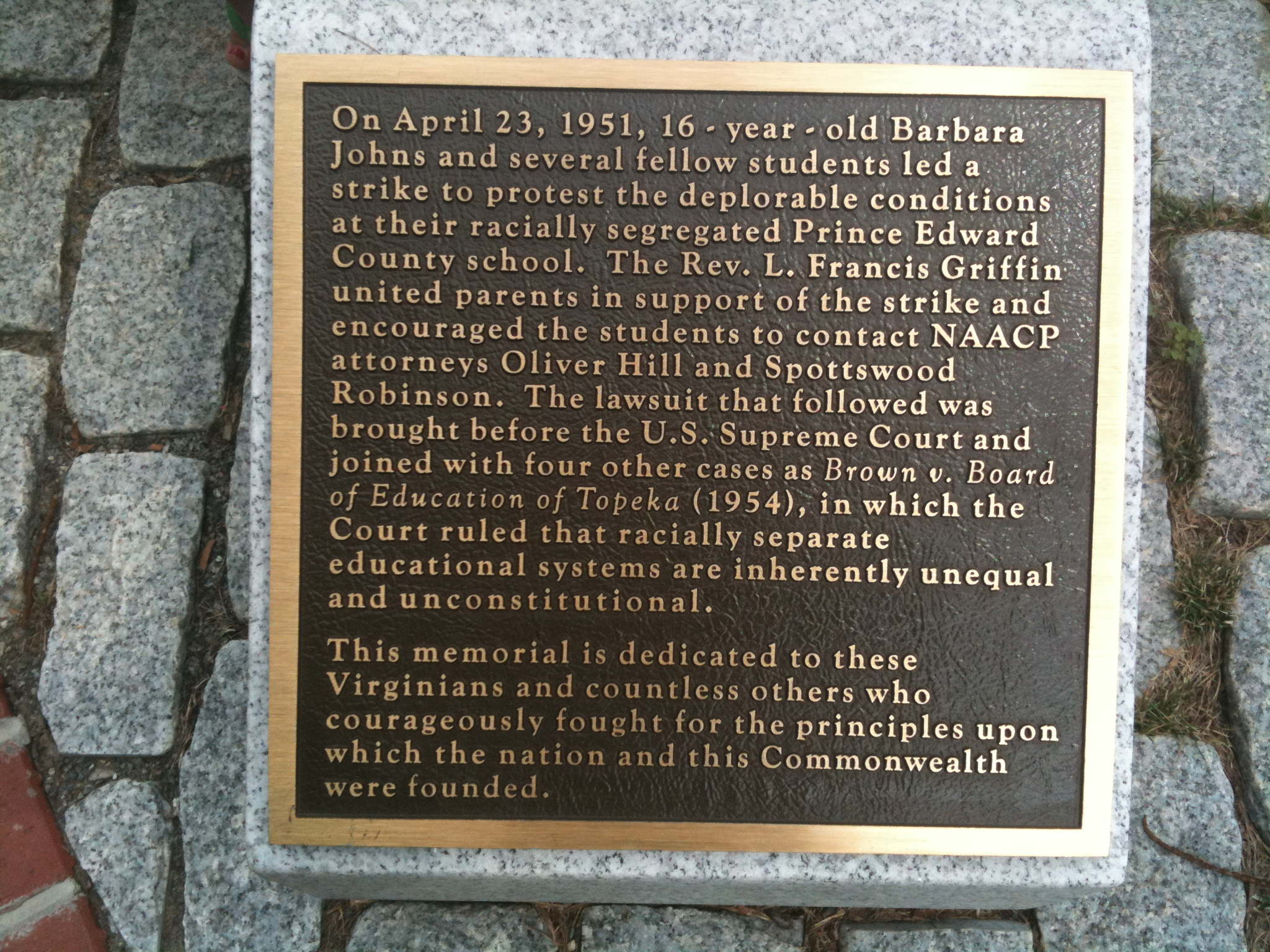 Plaque on the Virginia Capitol grounds commemorating the integration of Virginia schools struggle.